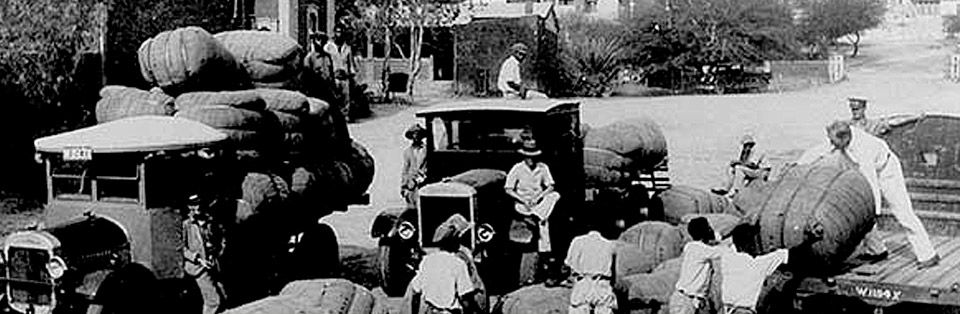 The yard of Wecke & Voigts in Windhoek with bales of Karakul wool being loaded. Wecke & Voigts Store, Windhoek, Namibia.